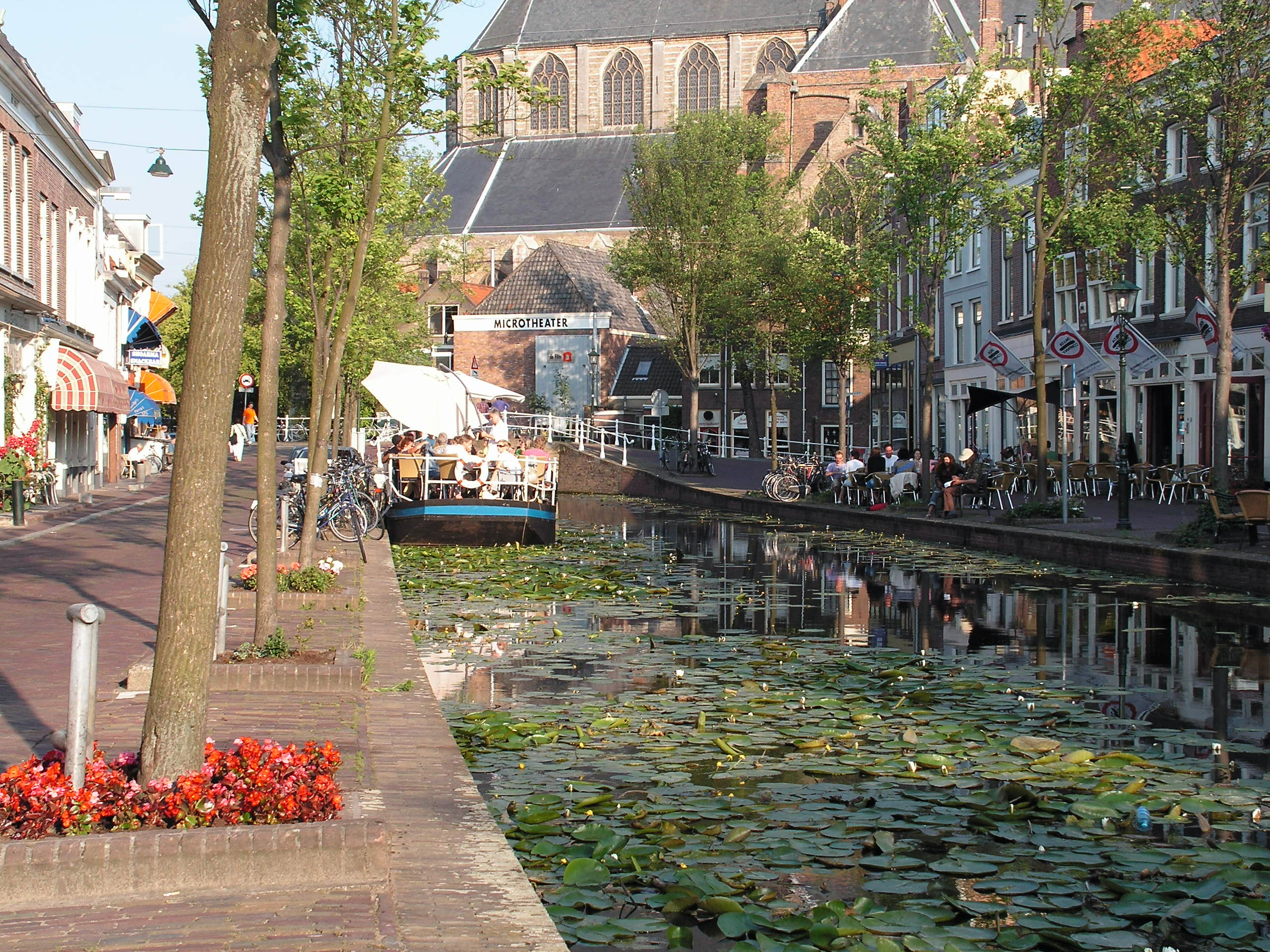 A typical view from the Centre of Delft, The Netherlands. Photo by Jens Buurgaard Nielsen Street:(Vrouw Juttenland)